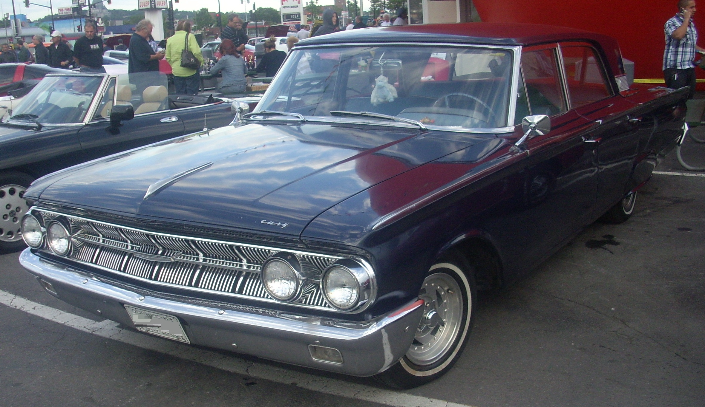 1963 Mercury Monterey photographed in Montreal, Quebec, Canada at Gibeau Orange Julep.